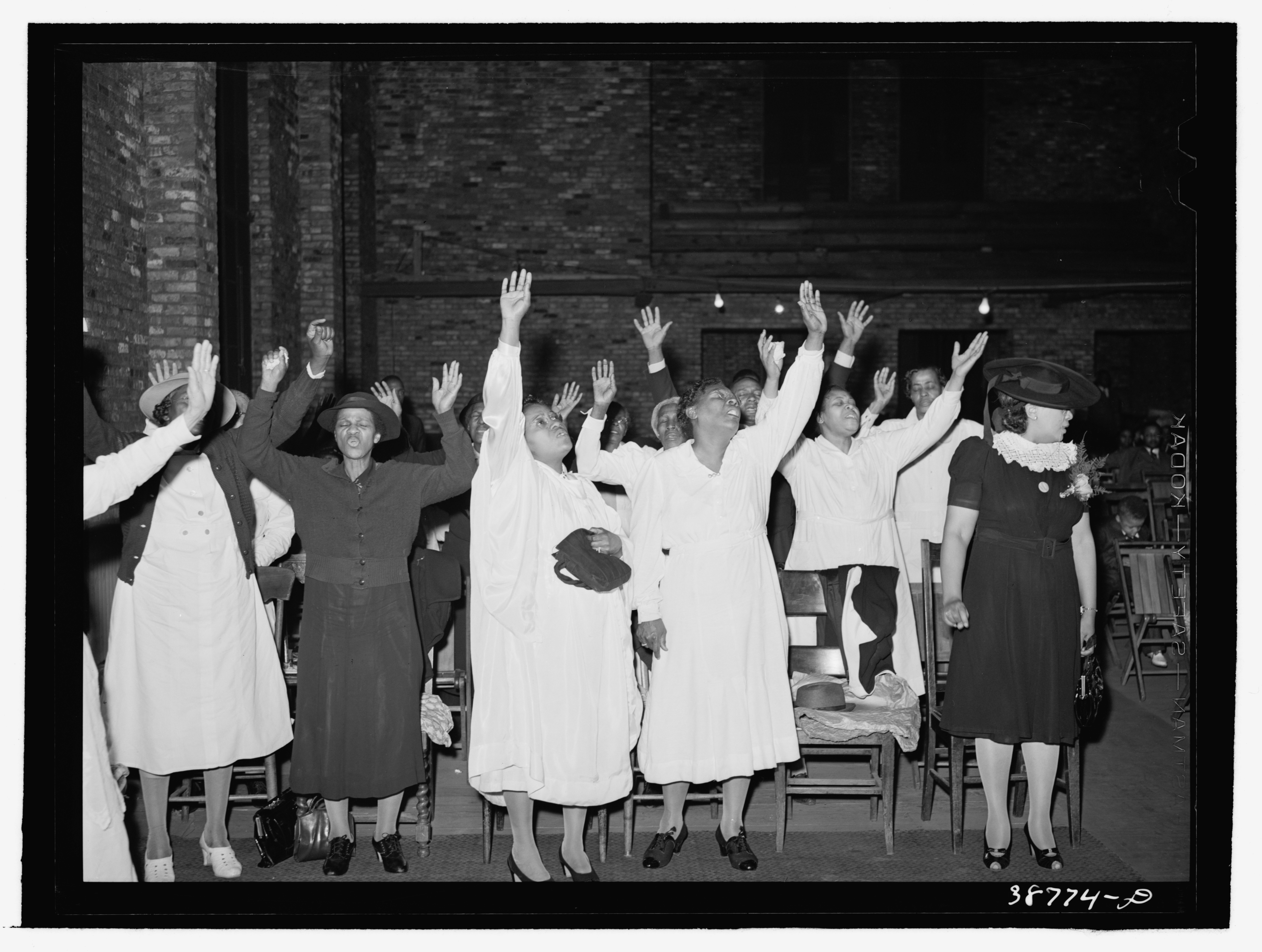 Members of the Pentecostal church praising the Lord. Chicago, Illinois